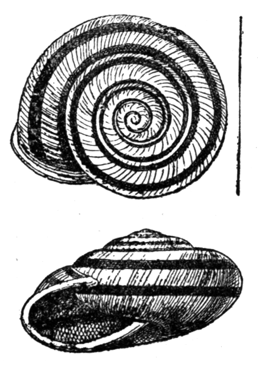 drawing of shell of Ariophanta laevipes